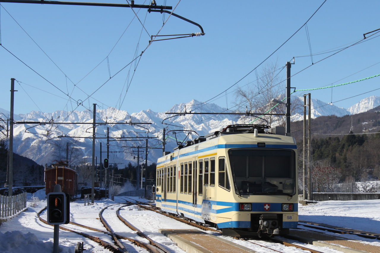 FART ABe 4/6 58 leaving S. Maria Maggiore while running as D 40 from Locarno to Domodossola.